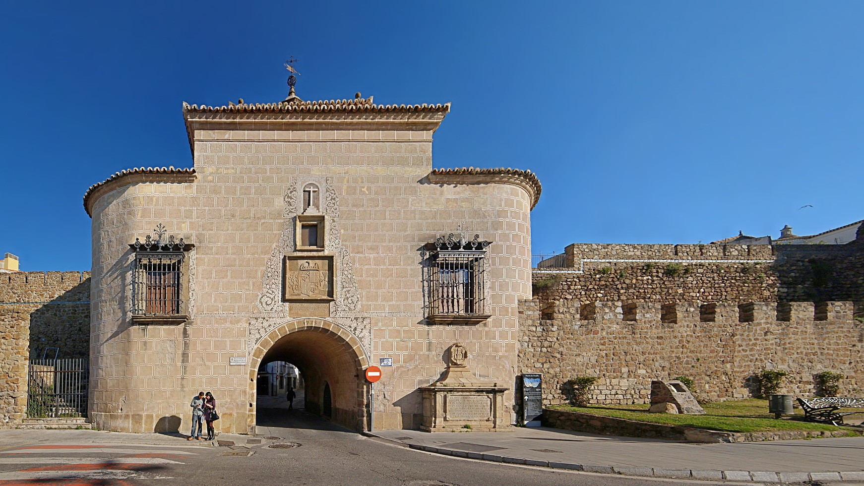 Puerta (city gate) of Trujillo, Plasencia, Spain. Stitch of 12 horizontal images.